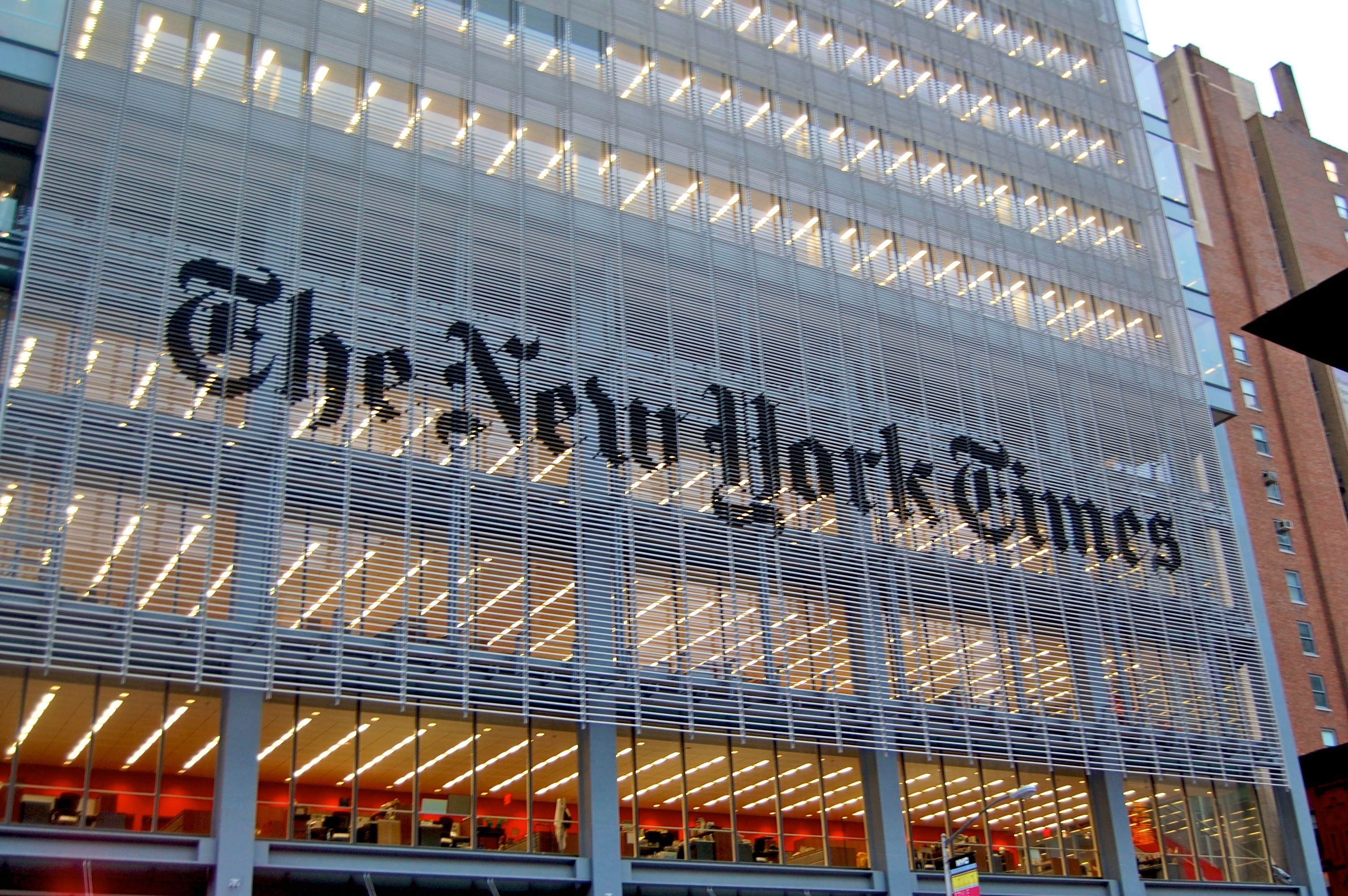 The New York Times building in New York, NY across from the Port Authority.